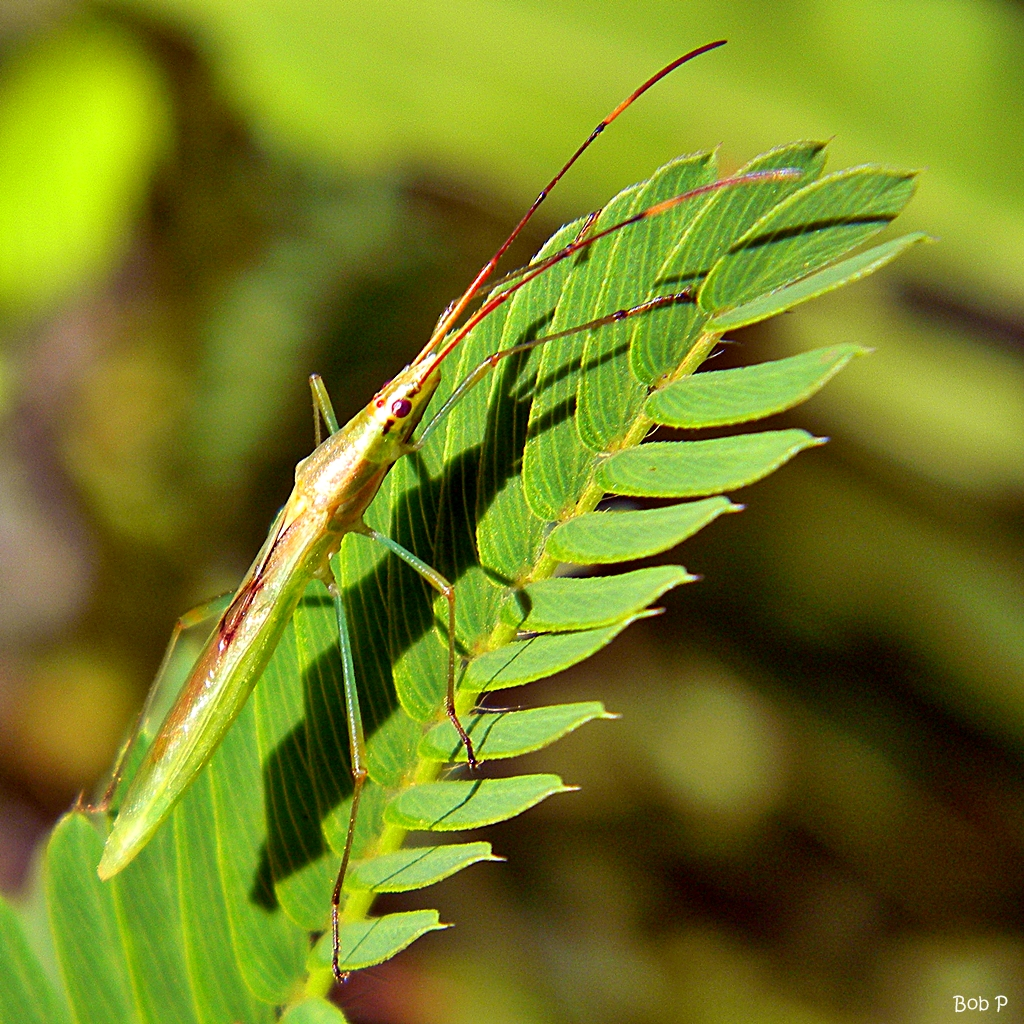 Stenocoris resting on a partridge pea leaf along a trail in the pine flatwoods section of Juno Dunes Natural Area. For those who can tolerate video, here is a 3 minute one of some of residents of Juno Dunes